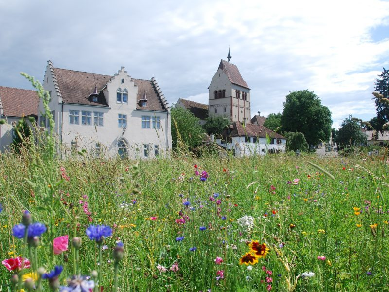 Monastery of Island Reichenau, Lake Constance